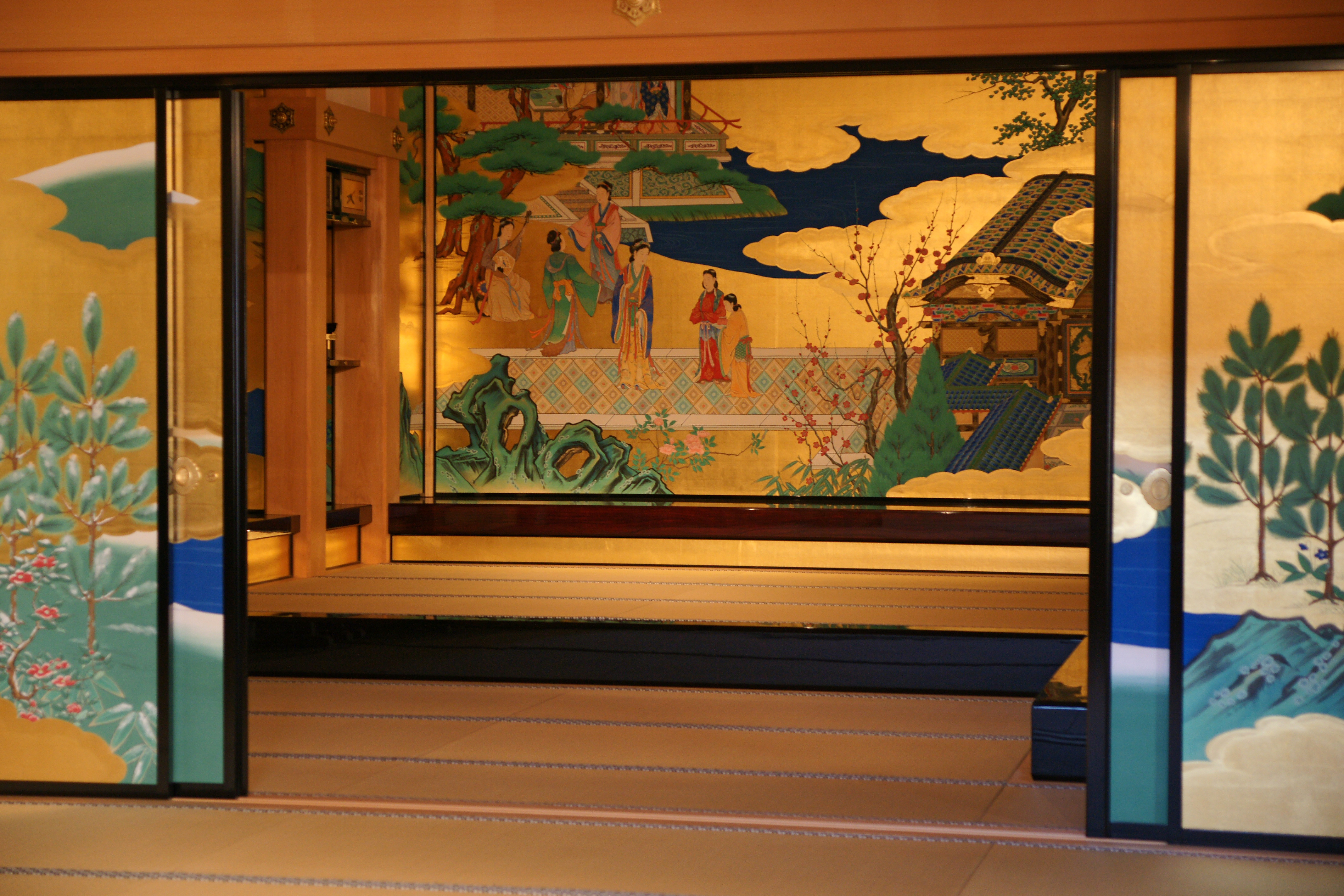 Kumamoto Castle, Kumamoto, Kumamoto prefecture, Japan